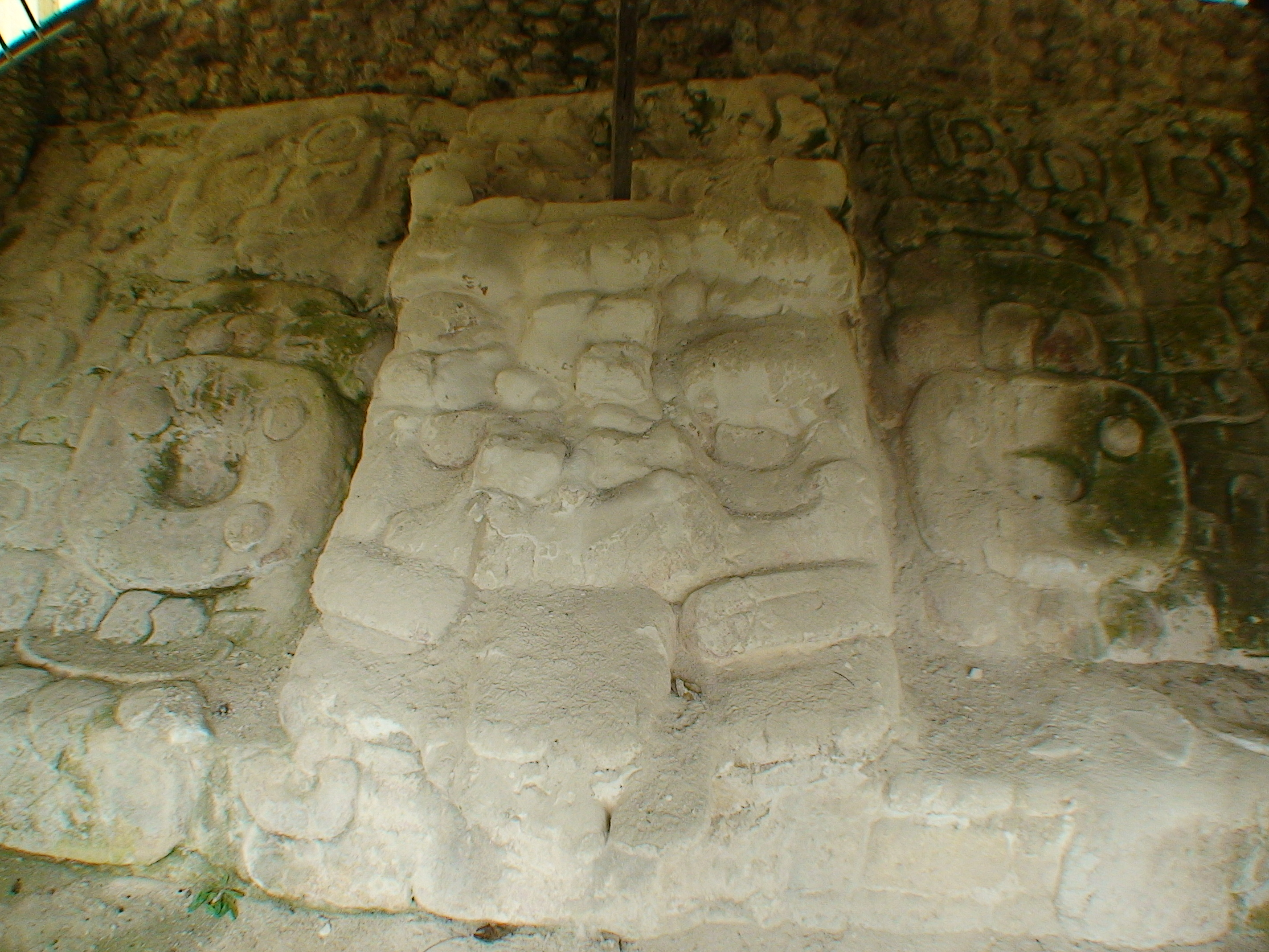 Itzamkanac, Campeche, Mexico: Mask